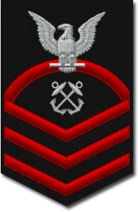 US Navy Chief Petty Officer shoulder patch rate insignia